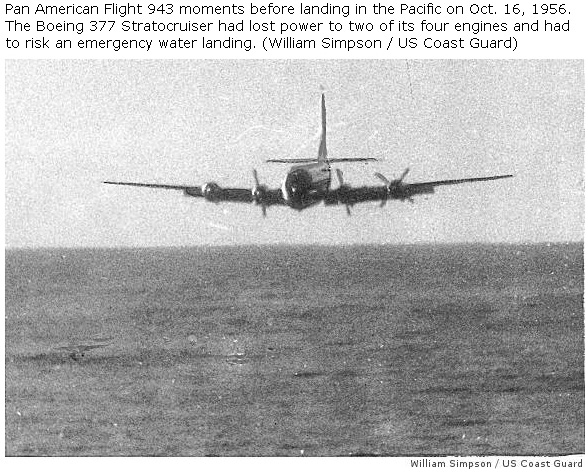 PanAmFlight6-Ditches-2